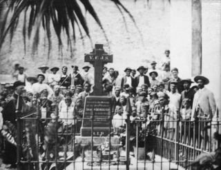 Father Damien's grave on the day he was buried in April 1889.